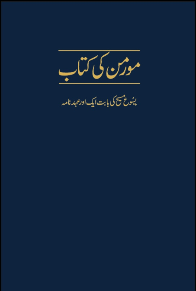 Urdu translation of Book of Mormon